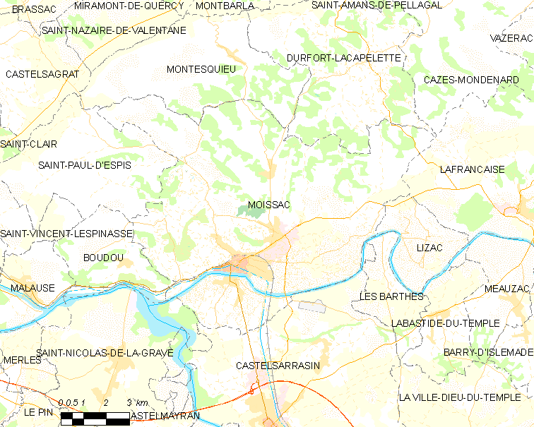 Map of French municipality Moissac